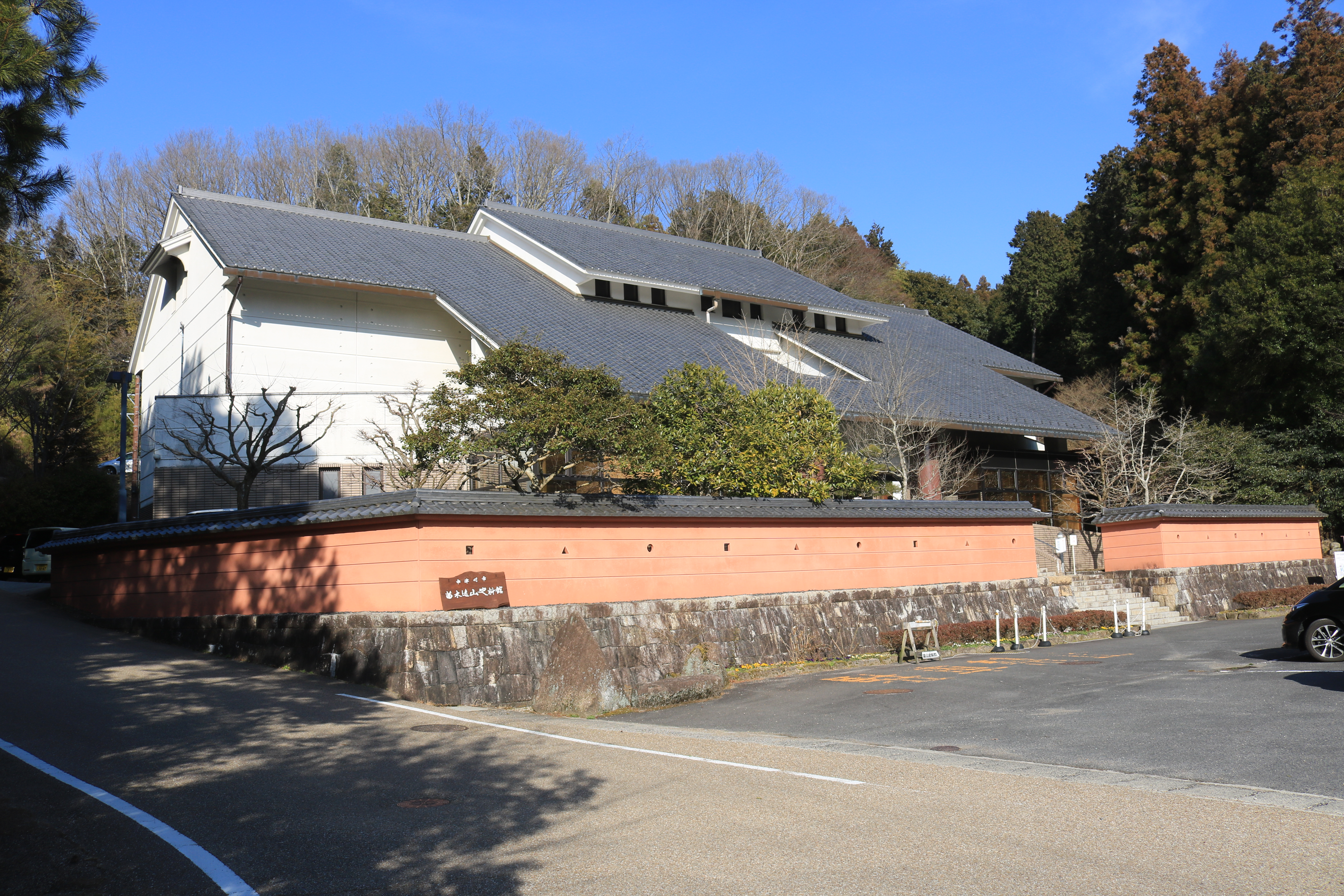 Naegi Toyama Historical Museum in Nakatsugawa, Gifu prefecture, Japan.